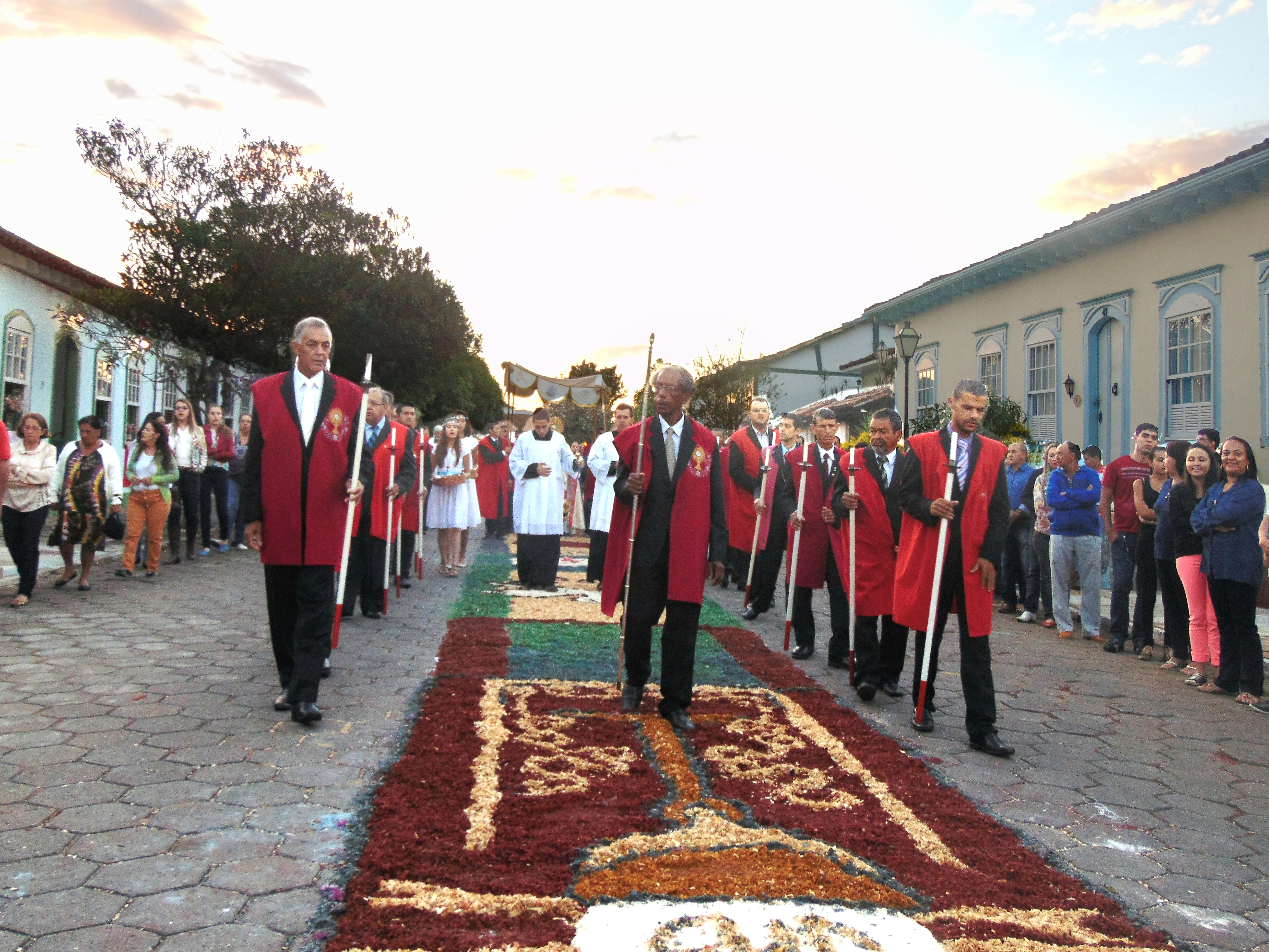 Corpus Christi procession promoted by the Confraternity of the Santíssimo of the Matrix of Pirenópolis in 2016.